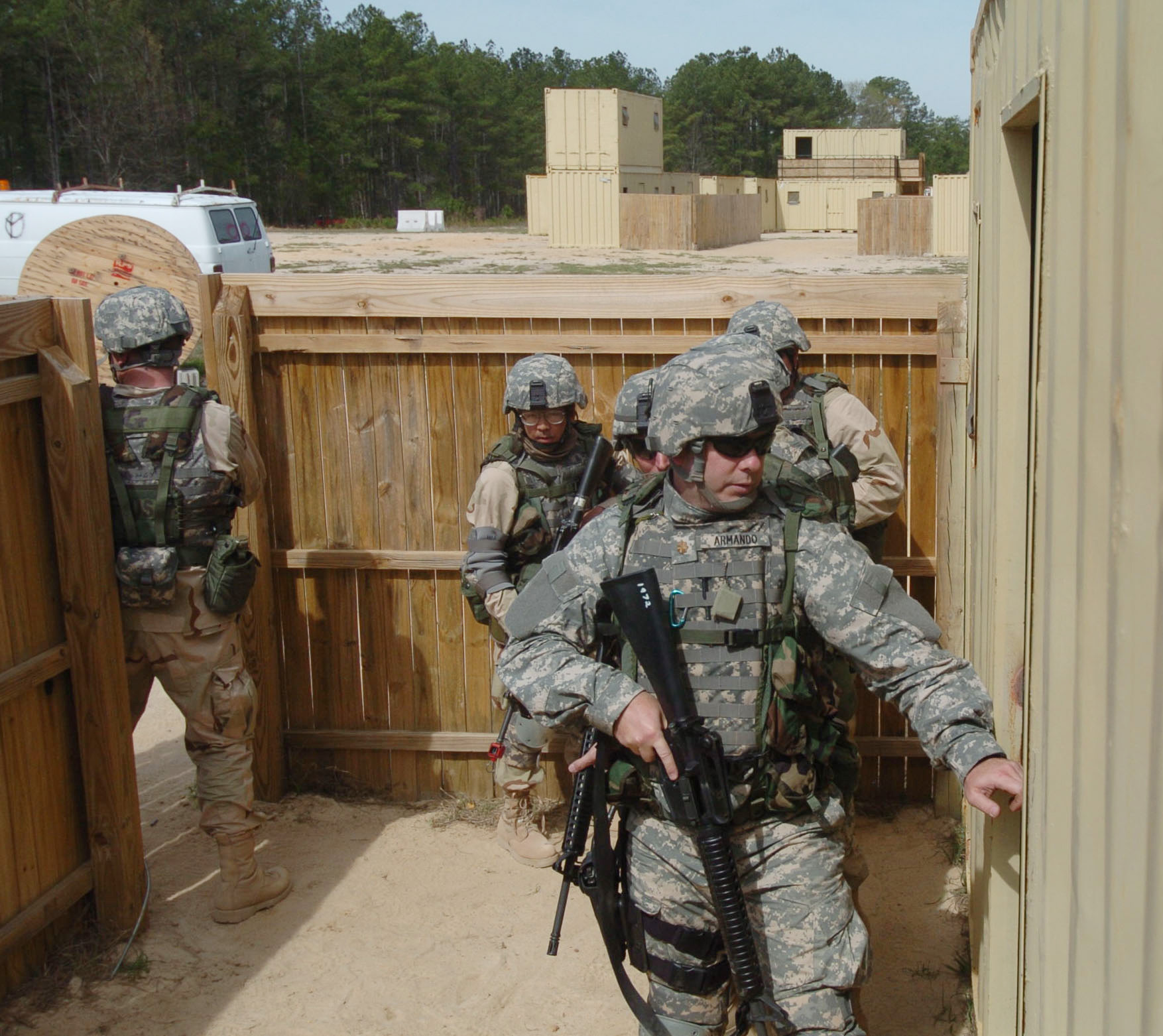 Fort Jackson, S.C. (April 5, 2006) - Sailors prepare to enter a simulated building while participating in the Navy's Individual Augmentee Combat Training course at Fort Jackson, S.C. The fast paced, two week course is instructed by Army drill sergeants and is designed to provide Sailors with basic combat skills training prior to being deployed as individual augmentees mostly to the U.S. Central Command area of responsibility (AOR). U.S. Navy photo by Journalist 1st Class Jackey Bratt (RELEASED)